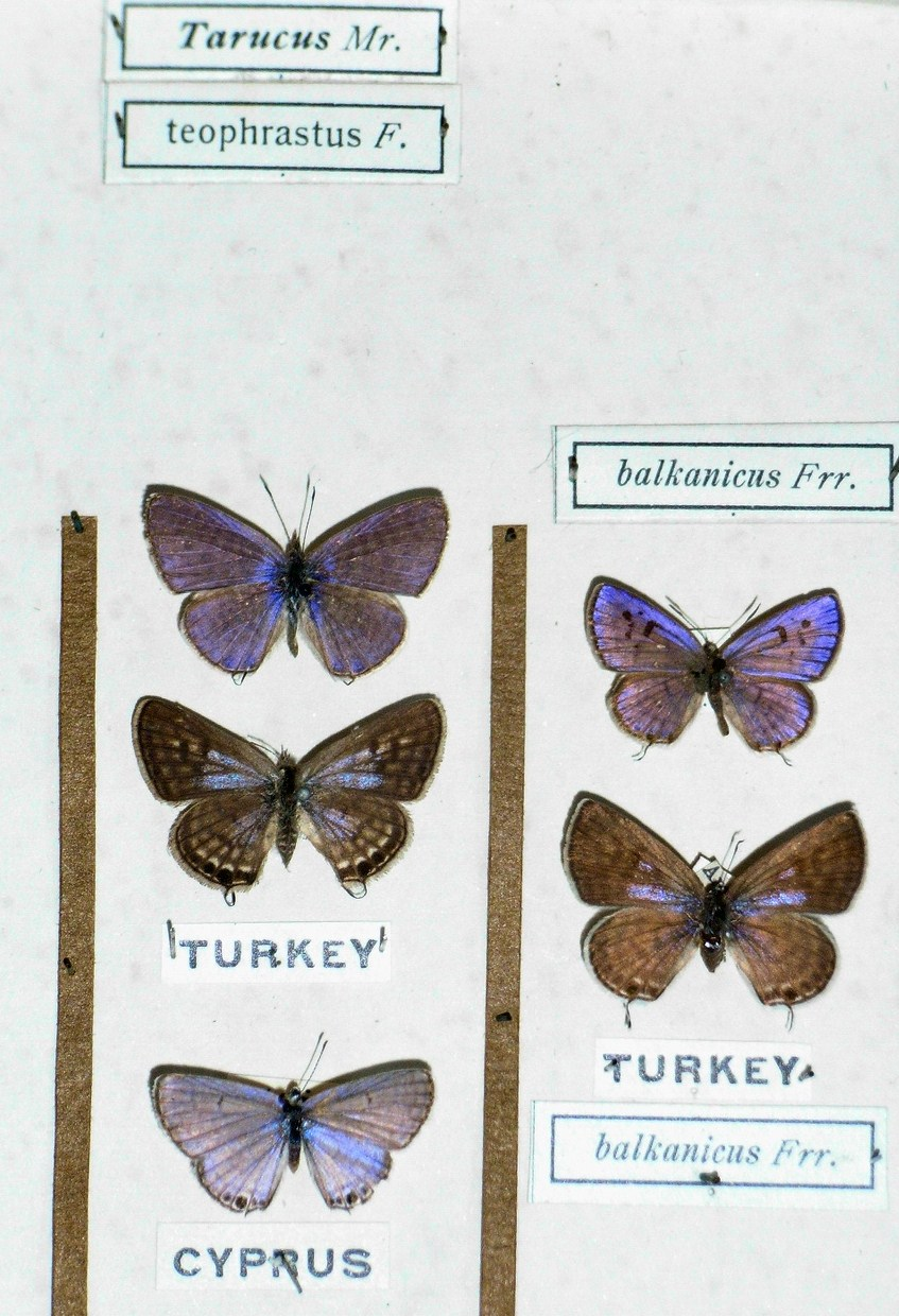 Tarucus theophrastus and Tarucus balkanicus